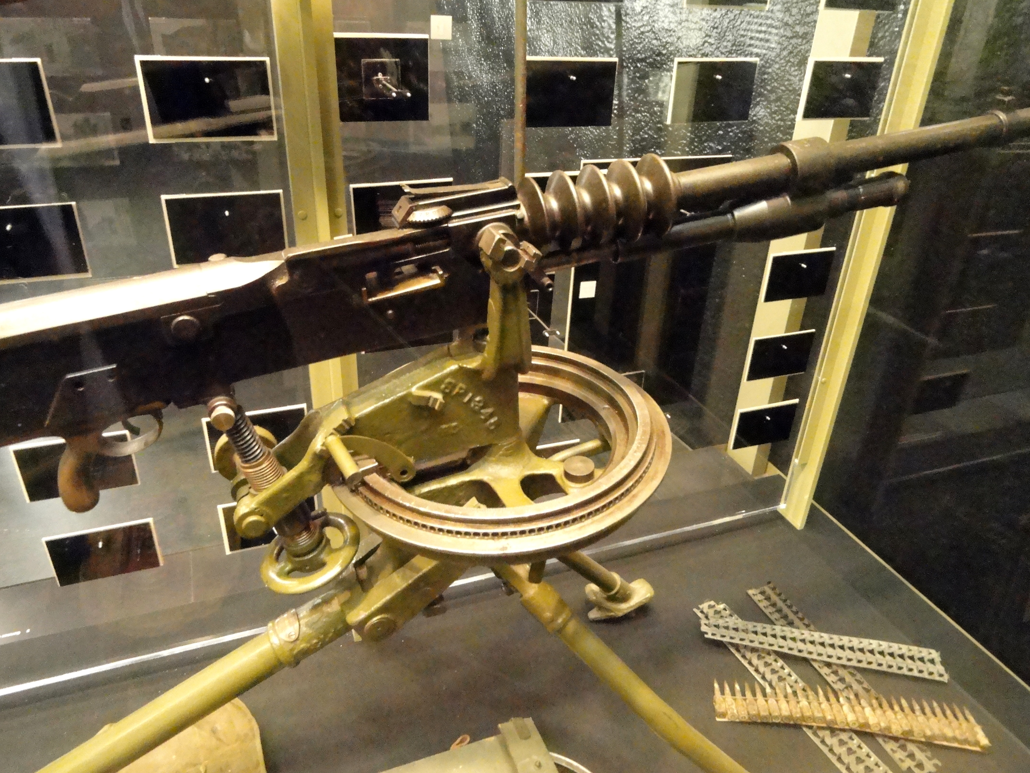 Exhibit in the National World War I Museum at the Liberty Memorial, 100 W. 26th Street, Kansas City, Missouri, USA.